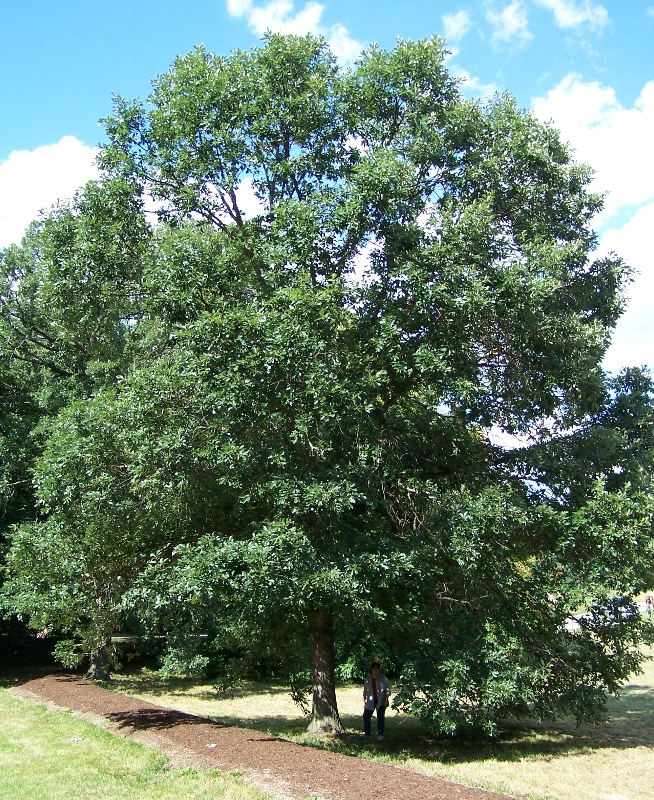 Swamp White Oak tree, Quercus bicolor. Morton Arboretum acc. 71-69-2.